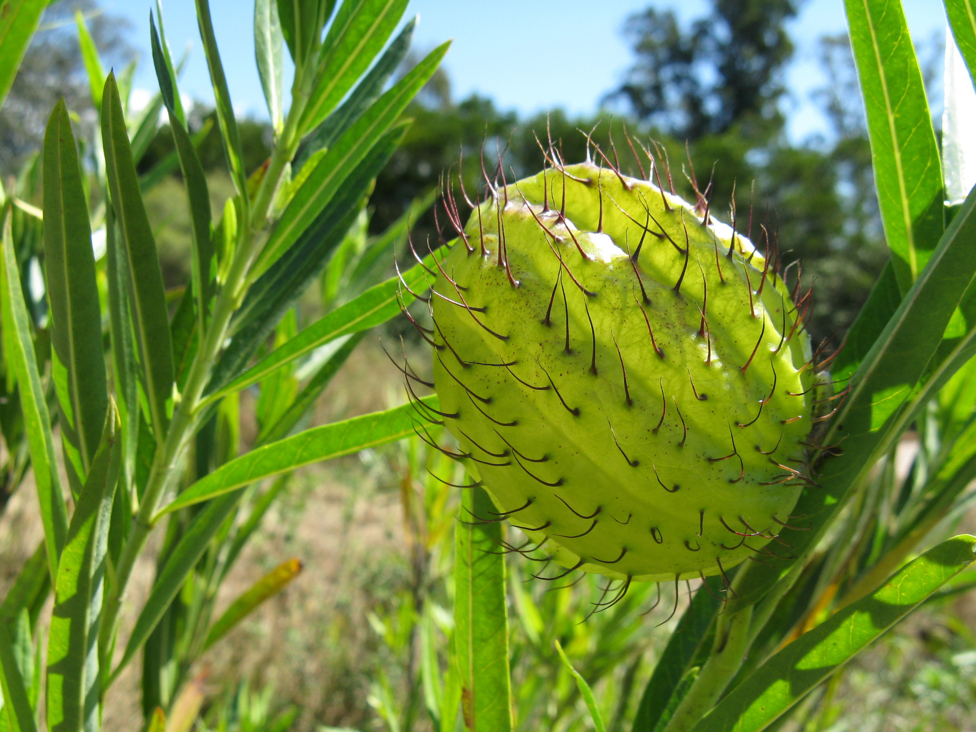 Gomphocarpus physocarpus (syn. Asclepias physocarpta)